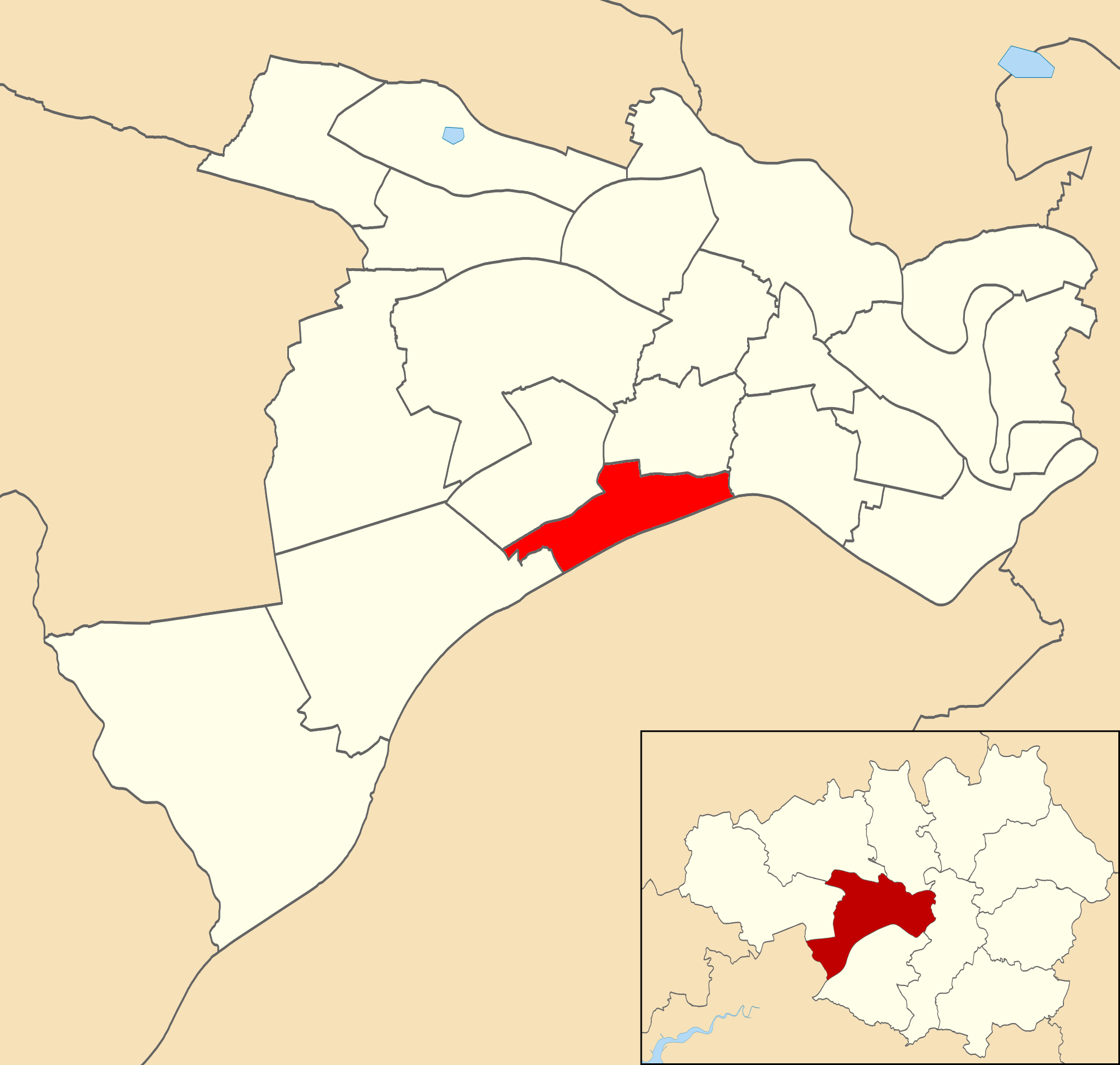 Map showing location of Barton ward within Salford City Council.